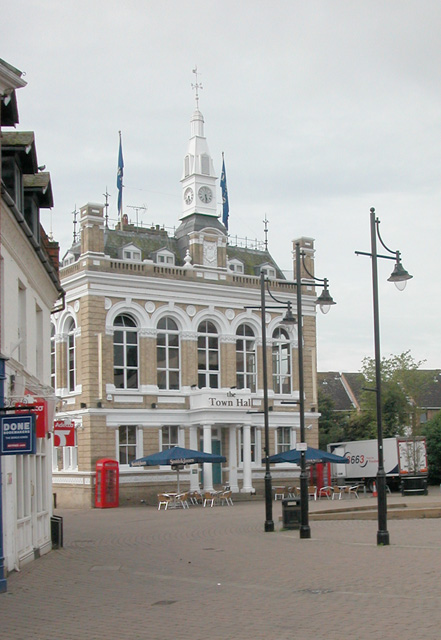 Old Town Hall, Staines. Now, apparently a cafe.